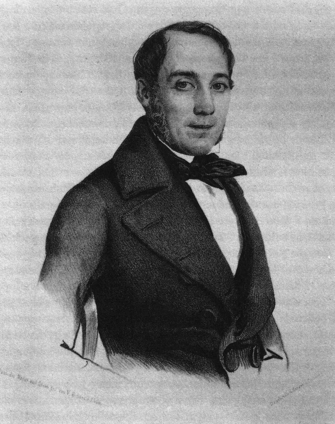 Karl Mathy, German politician (1807-1868) see Karl Mathy